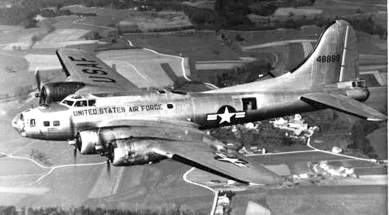 7499th Support Squadron B-17G-85-VE Fortress 44-8889. (c/n 8289) accepted by the USAAF on 31 January 1945 at Hunter Field in Georgia, assigned 8th AF (stored), assigned Apr 8, 1949 to 7499th BS at Wiesbaden, Germany. Converted to RB-17G Oct. 14, 1949. Stored Olmsted AFB Sep 17, 1953 . Converted to QB-17G Apr 1954 - SOC Jun 1954 at Olmsted AFB. To civil registry as N9642B, to D-EGBE, to OO-SPO. On Aug 12, 1954 to Institut Geographique National of France as F-BGSO, it was heavily modified by the IGN for survey work. Donated Sep 8, 1976 to the Musee de l'Air in Le Bourget near Paris, France for display, last reported (Dec. 2000) in storage. 8891 transferred to Brazilian Air Force. Withdrawn from service in 1967.